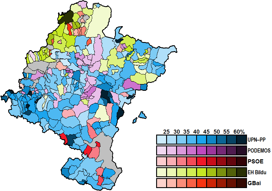 Most-voted party in Navarre municipalities, showing vote share obtained, in the Spanish general election, 2015.